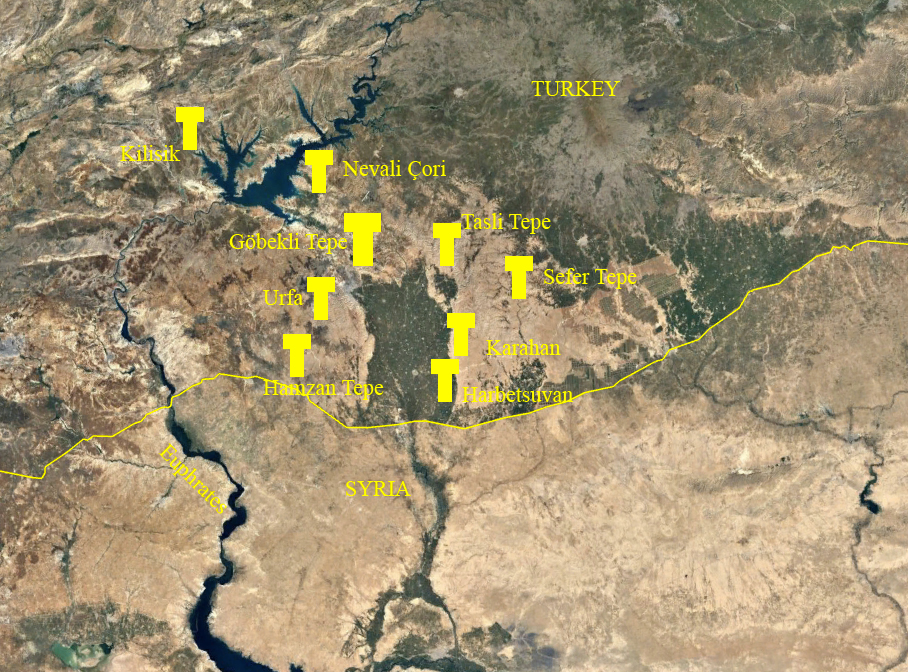 Sites with T-shaped pillars from the PPN